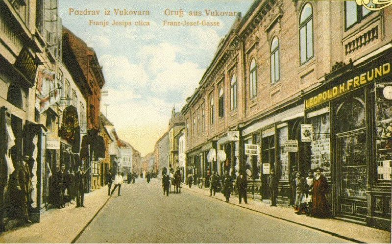 Franz Joseph I street